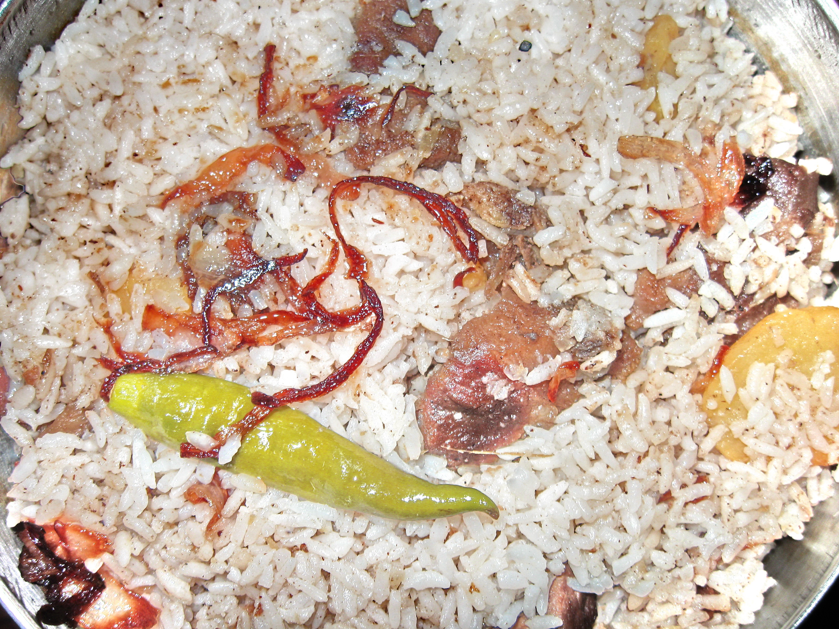 Bangladeshi home-made beef biryani.